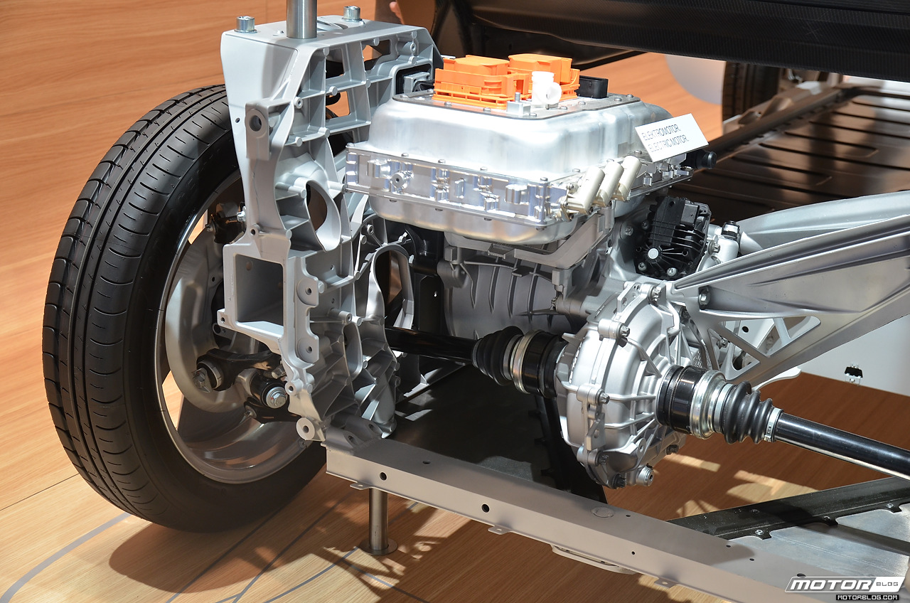 IAA Frankfurt 2013: BMW i3 / Photo: Raphael Jahn ______________________ Please feel free to use this image for FREE under the Creative Commons (CC) licence. However, if you use the image, pls set a backlink to and give credit as following: "Image: ". For highres images or any other inquiries pls contact mailto: . Thanks.